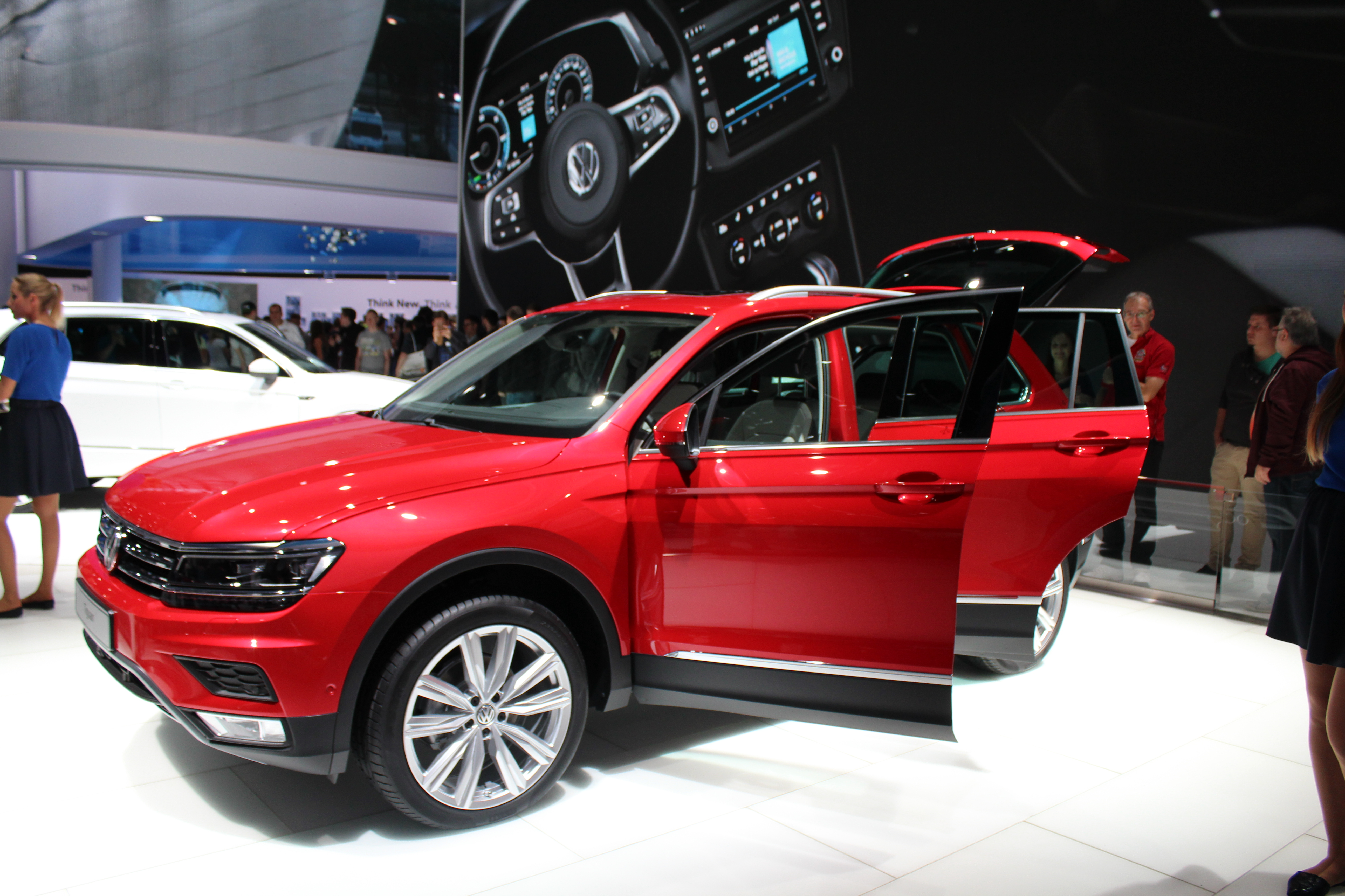 Passenger vehicles being displayed in 2015 International Motor Show Germany.